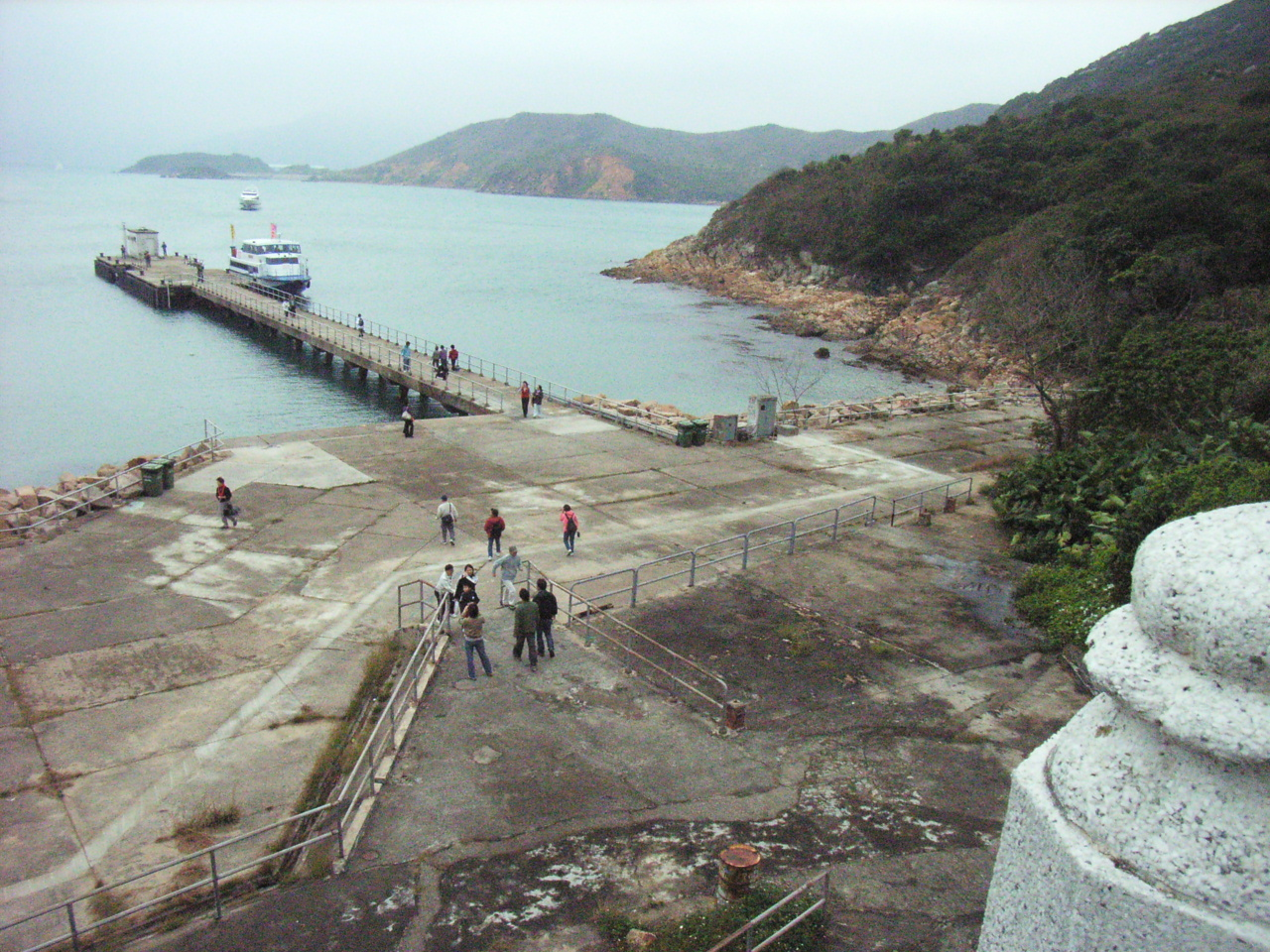 大廟灣, Tai Miu Wan, Joss House Bay, Clear Water Bay, Kowloon Photo by me.